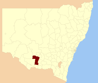 locator map of Murrumbidgee Council in New South Wales